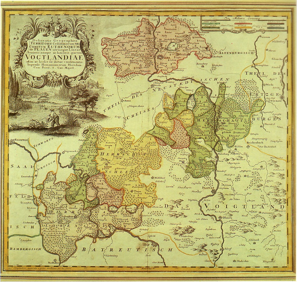 18th century map of the Reuss principalities, Thuringia, Germany